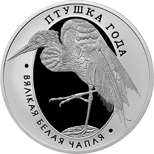 Environmental protection. Commemorative coins "Vyalikaya White Chapple (" Great White Egret)